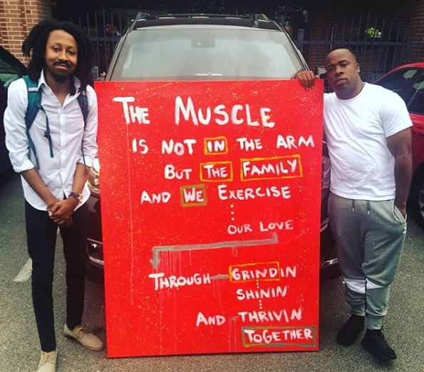 Genesis was commissioned to create one of his fine art piece for the Rapper and Music Mogul Yo Gotti